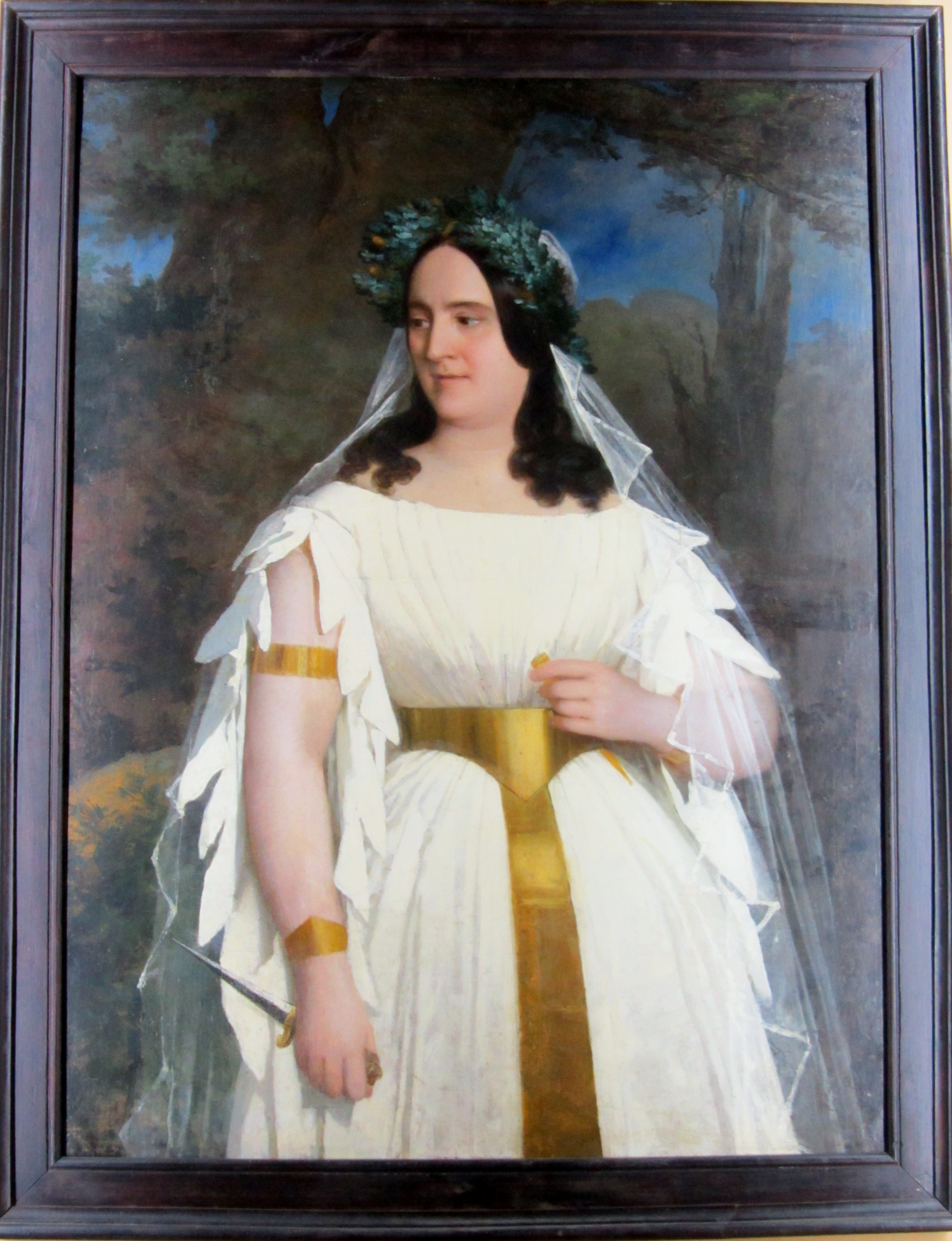 Clorinda (Adelaida) Corradi interpreta el papel de Norma en la opera homónima de Vincenzo Bellini (1801–1835) Alternative names Bellini; Vincenzo Salvatore Carmelo Francesco BelliniDescriptionItalian composerDate of birth/death 3 November 1801 23 September 1835Location of birth/death Catania, Kingdom of Naples Puteaux, FranceWork period1825-1835Work location Naples, Kingdom of Naples; Milan, Kingdom of Lombardy–Venetia; Paris, FranceAuthority control : Q170209 VIAF: 39560983 ISNI: 0000 0001 2129 1204 LCCN: n80122768 NLA: 35017118 MusicBrainz: 6f5bfd20-84cc-4879-8a40-05631ad576c7 WorldCat creator QS:P170,Q170209